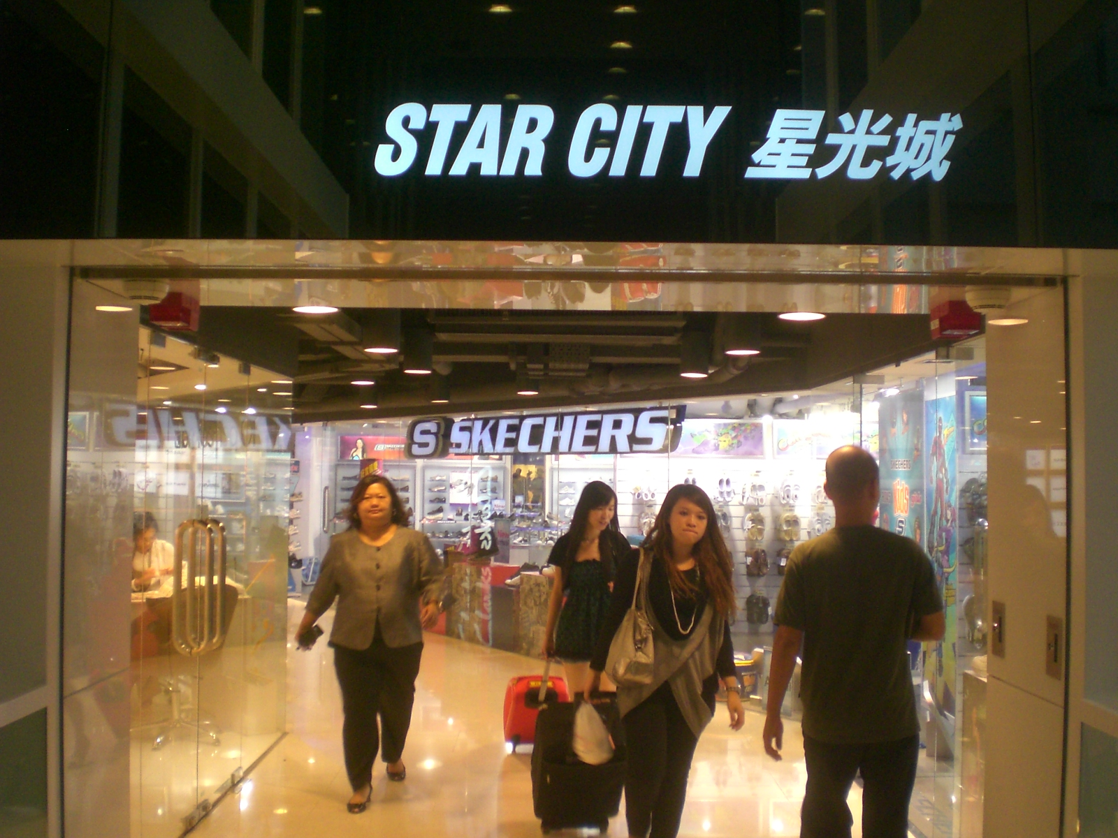 尖沙咀星光行